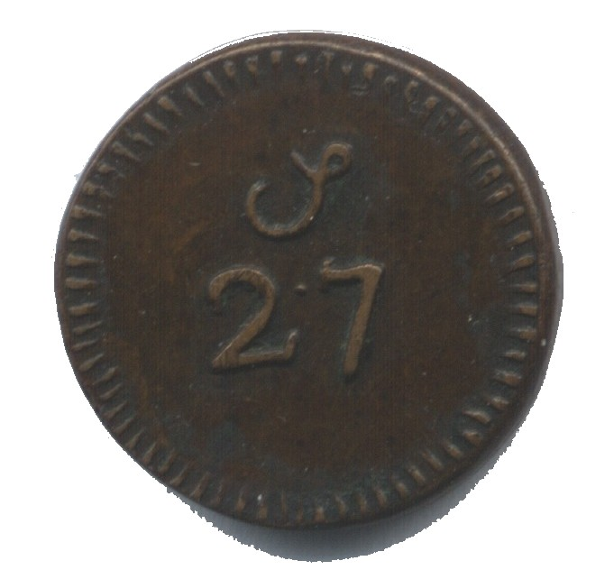 A coin weight for a Moidore, a portuguese coin valued 27 shillings